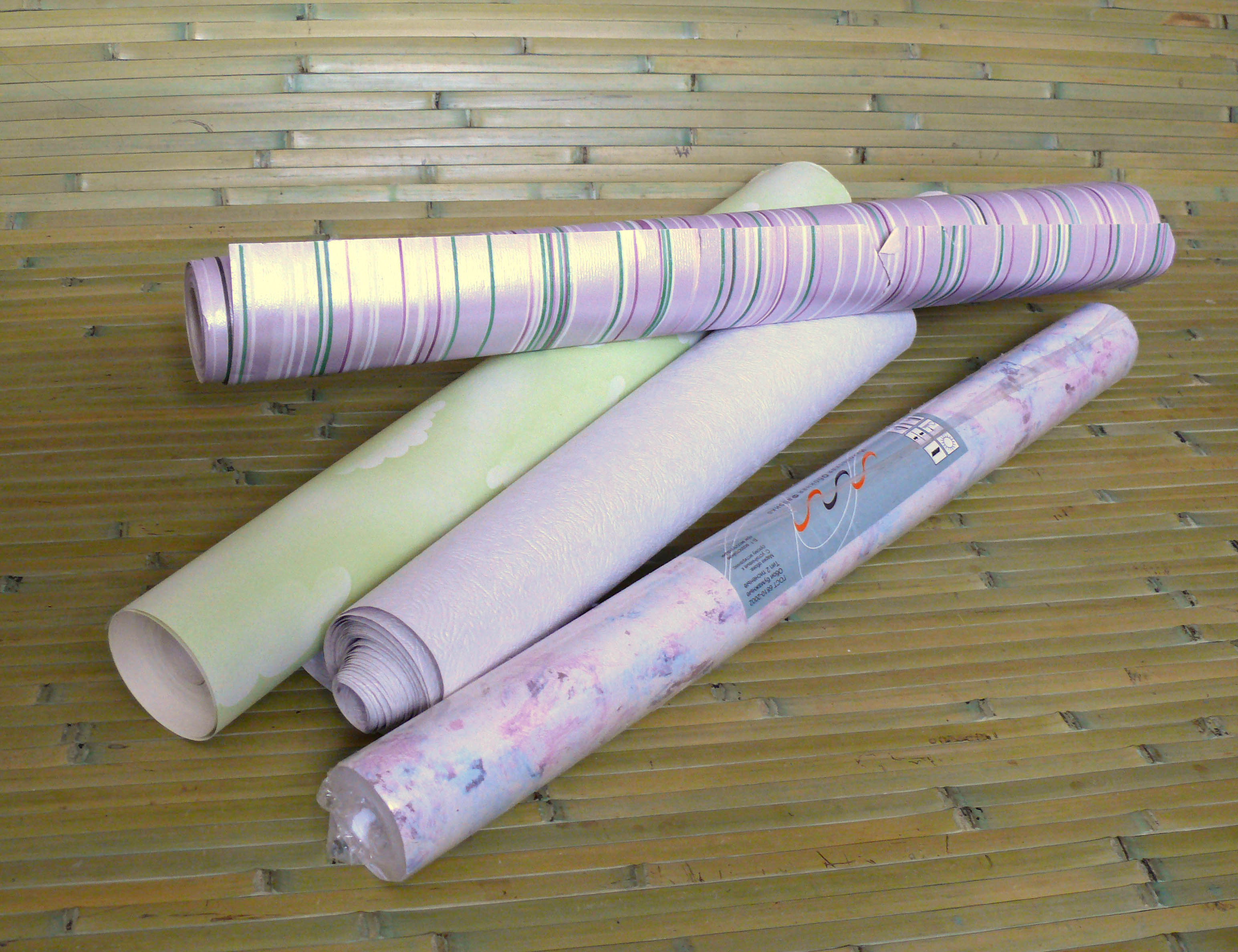 Wall paper